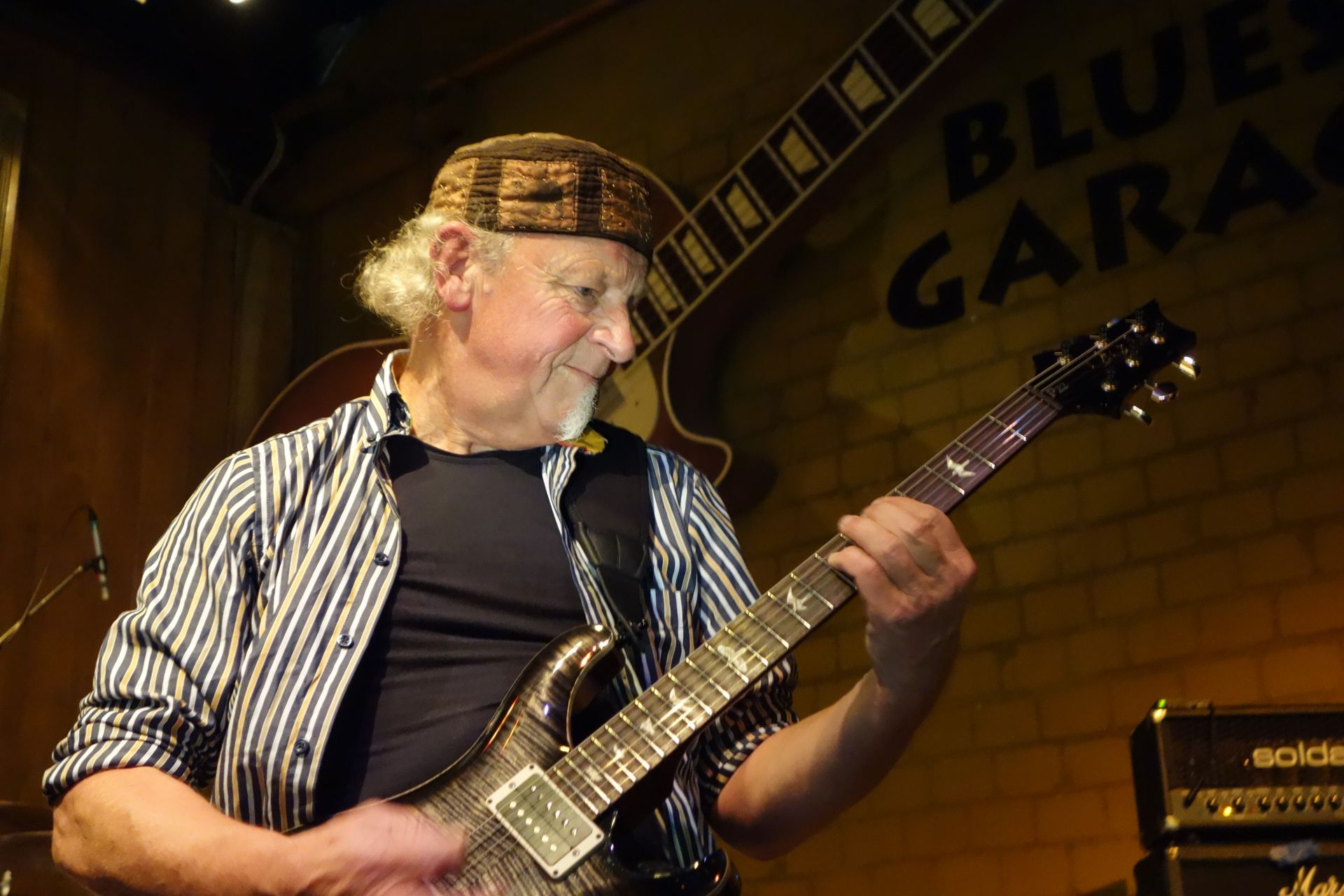 Martin Barre in Concert, Bluesgarage Isernhagen 24.10.2013